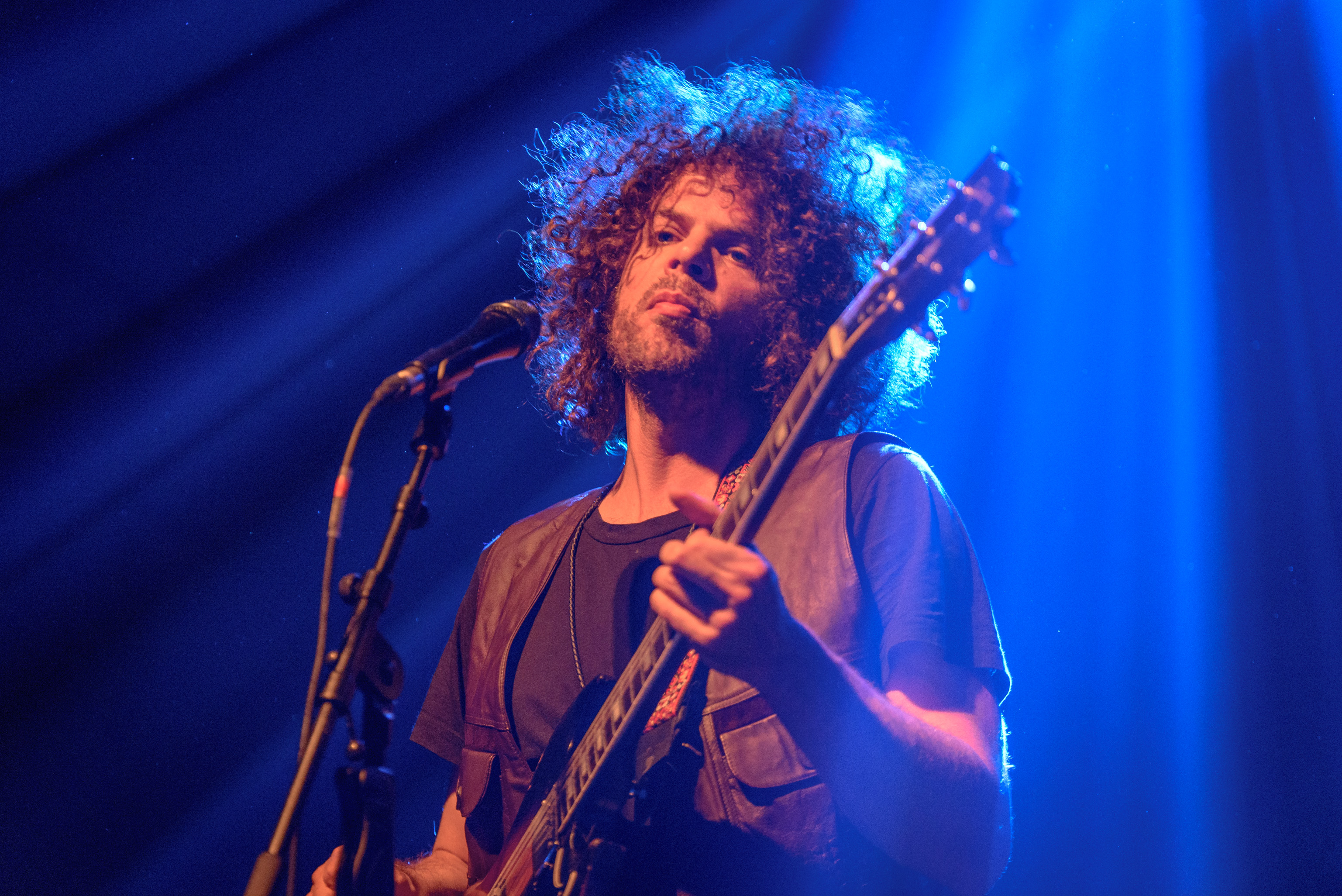 Wolfmother Live @ Munich 2016